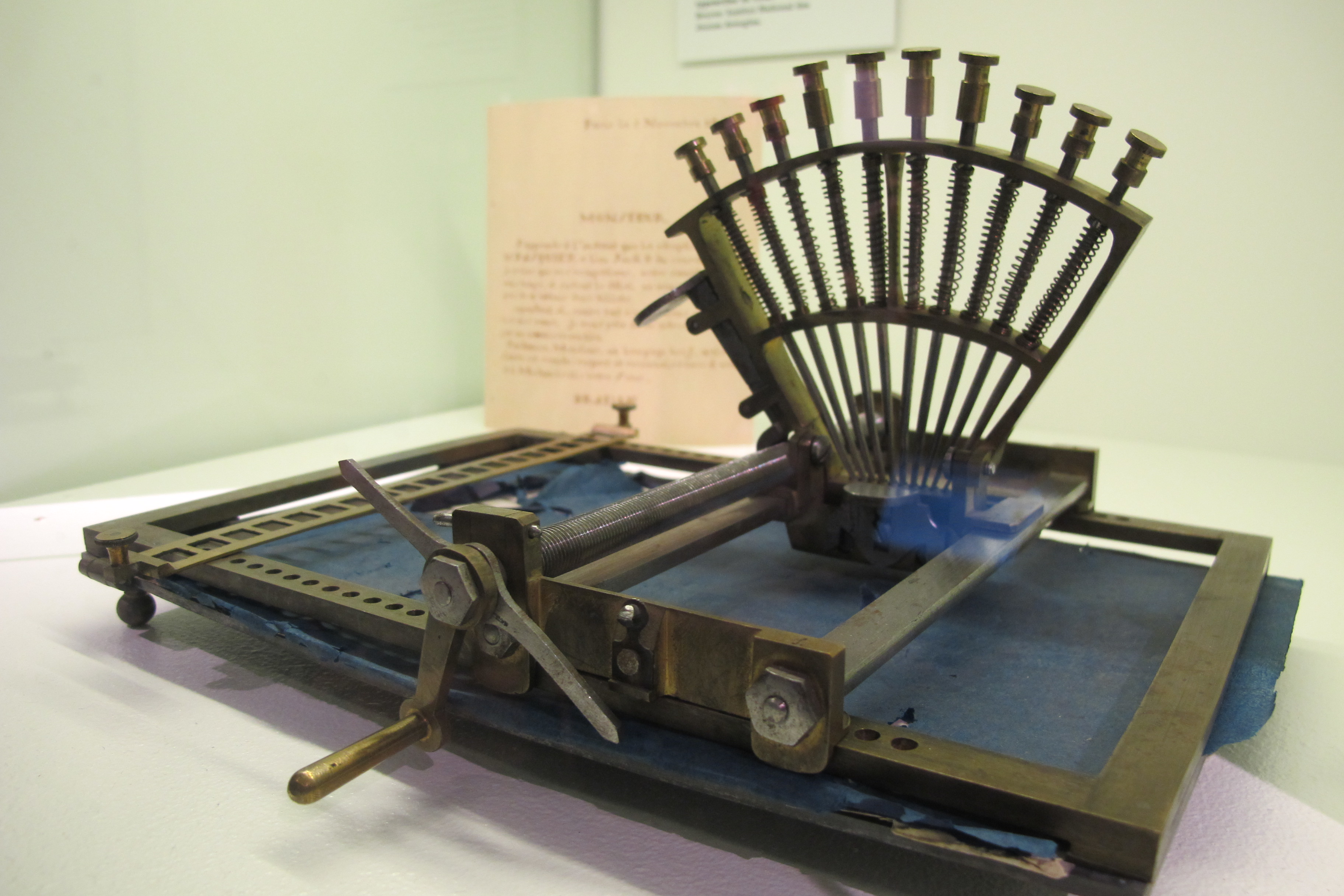 Raphigraphe, typewriter for the blind in Rupriikki Media Museum, Tampere, Finland.